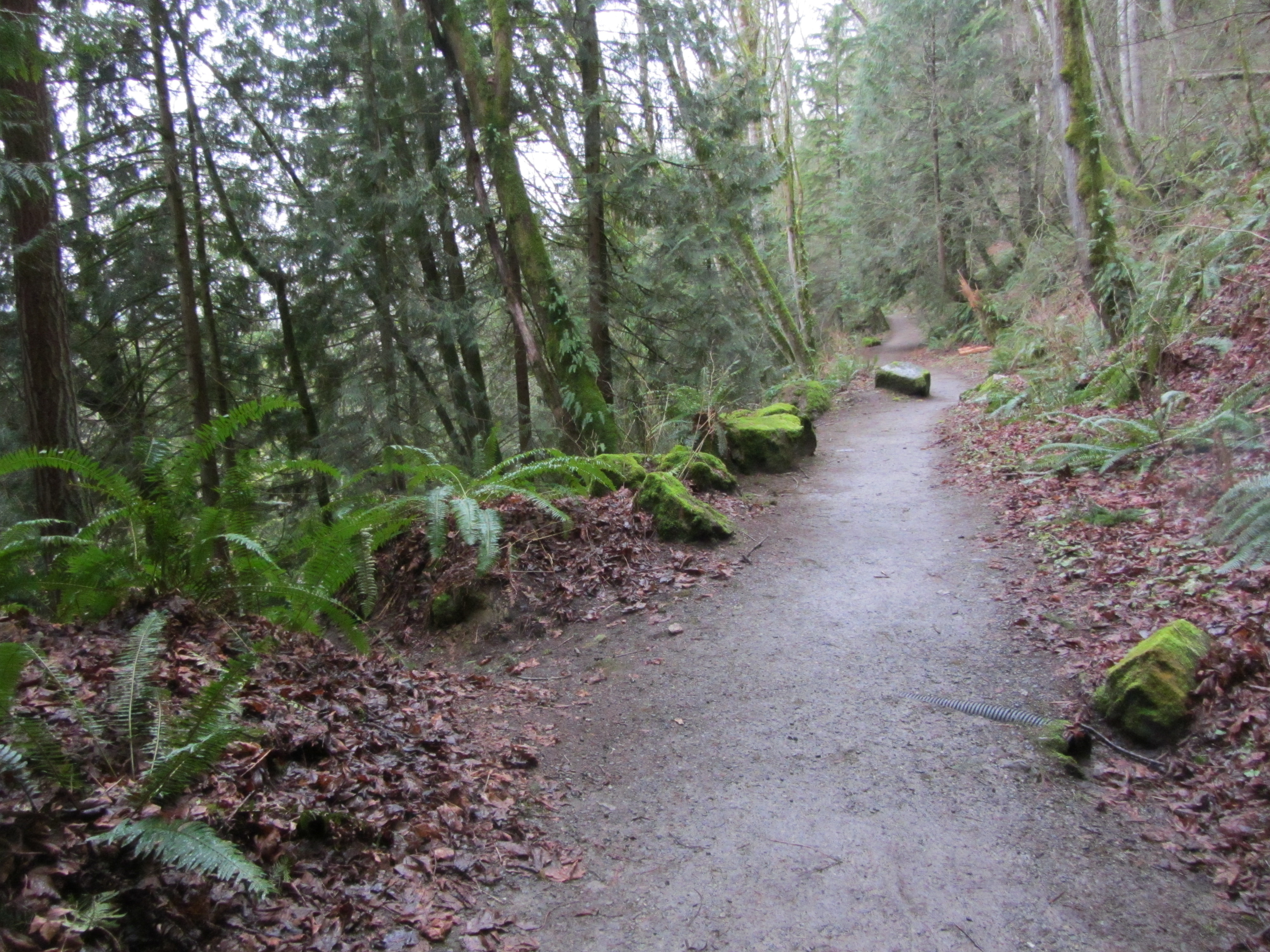 The former right-of-way of the Fairhaven and Southern Railroad, now a trail to Squires Lake Park, in February 2012